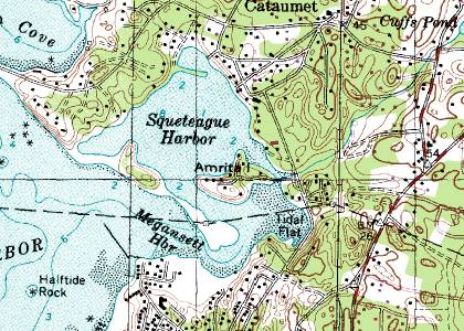 US Geological Survey Amrita Island Map